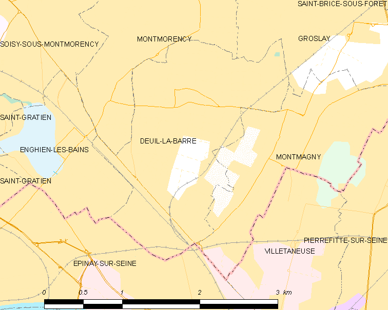 Map of French municipality Deuil-la-Barre